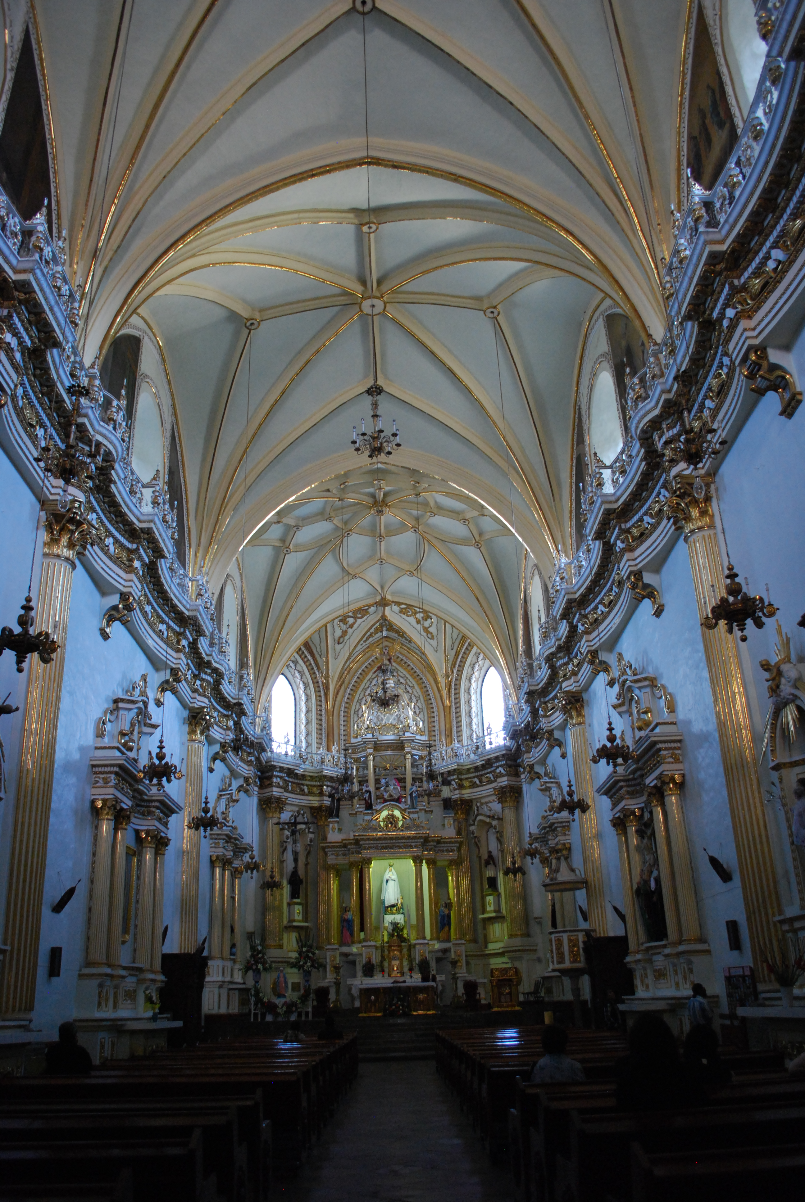 Nave of the main church of the former monastery of San Gabriel in Cholula, Puebla, Mexico